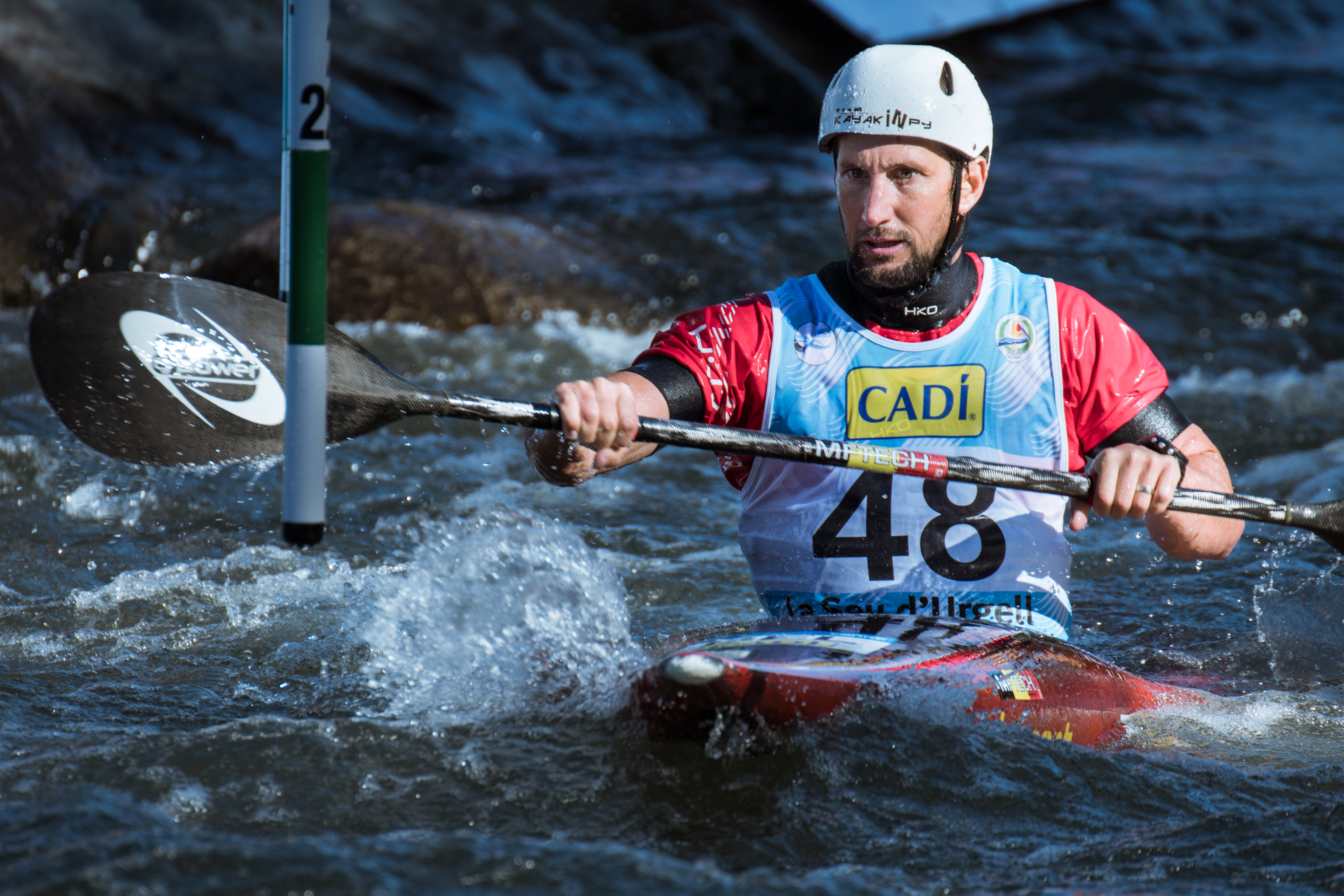 Mathieu Doby during the 2019 Canoe Slalom World Championships in La Seu d'Urgell, Spain.